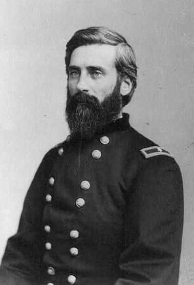 Brigadier General Edward Hatch.